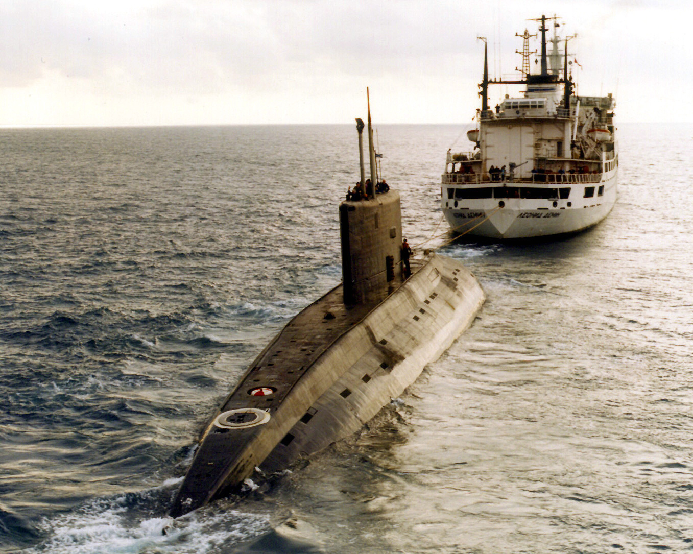 A Russian-built, Kilo-class diesel submarine recently purchased by Iran, is towed by a support vessel in this photograph taken in the central Mediterranean Sea during the week of December 23. The submarine and the support ship arrived at Port Said, Egypt, on Tuesday and were expected to begin transiting the Suez Canal today, Jan. 2, 1996. Ships and aircraft from the U.S. Navy's Sixth Fleet are tracking the submarine, which has been making the transit on the surface. This is the third Kilo-class submarine the Iranians have purchased from Moscow.